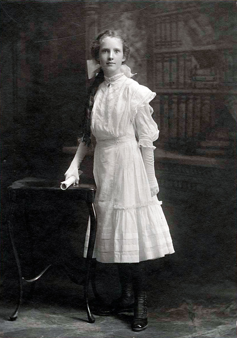 Edited (cropped) version of File:Helen C. White in high school.jpg. From archives: "A portrait of English professor Helen C. White during her time in high school." Local identifier: UW.uwar04872.bib